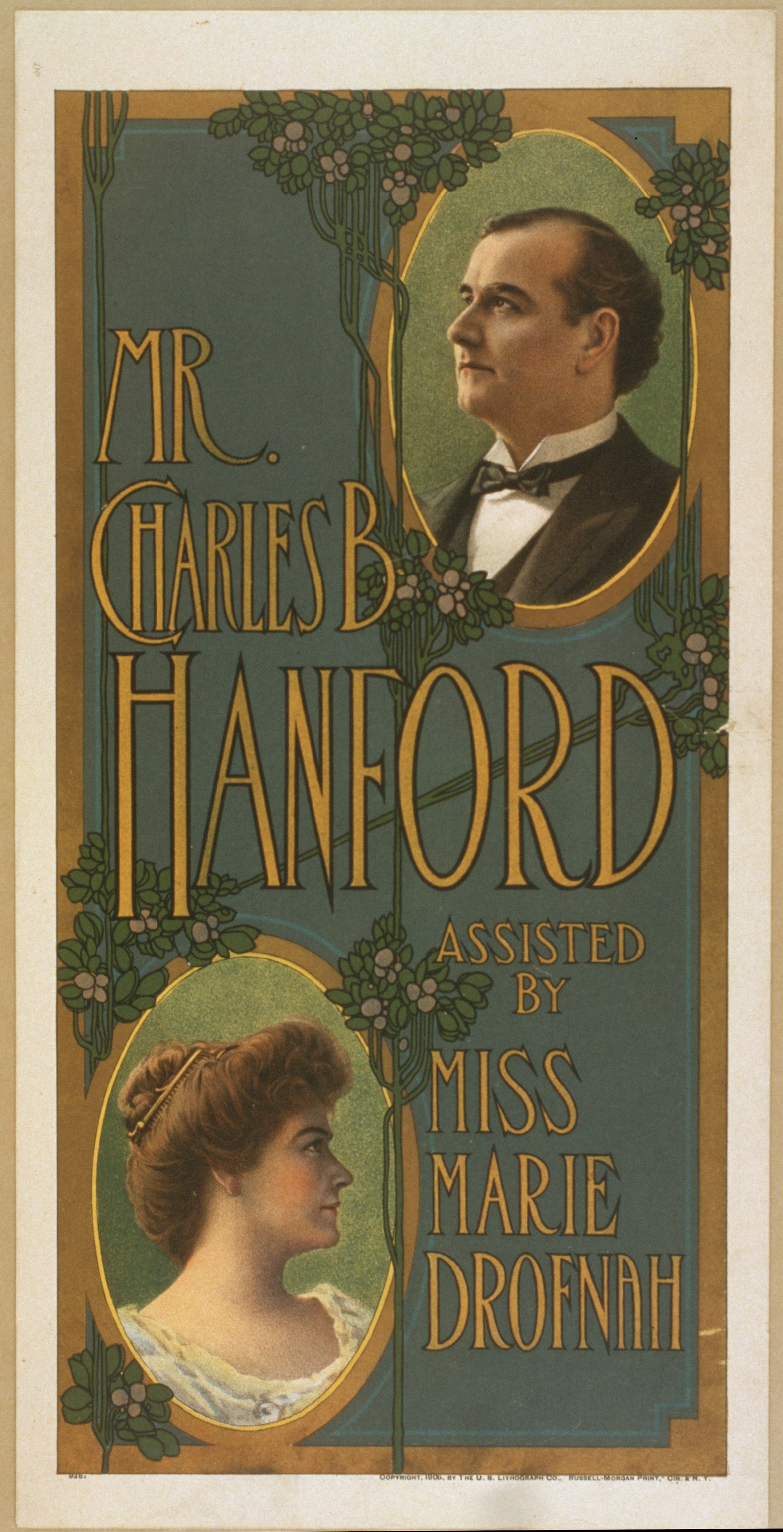 Title: Mr. Charles B. Hanford assisted by Miss Marie Drofnah. Abstract: 1 print : color lithograph ; sheet 46 x 23 cm. (poster format)